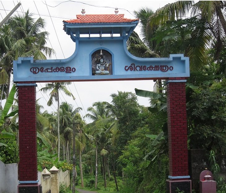 തൃപ്പേക്കുളം ക്ഷേത്ര ഗോപുര കവാടം